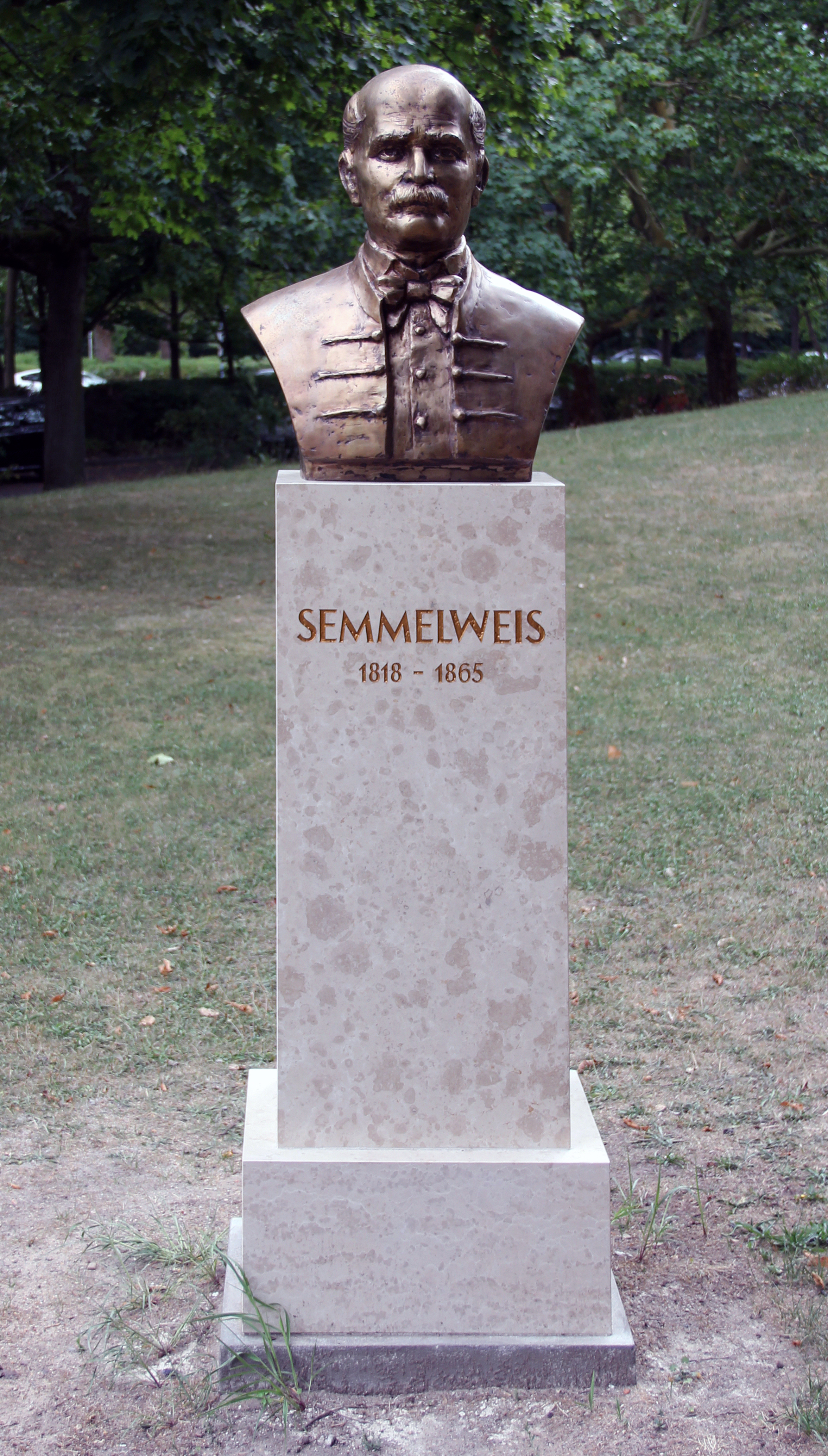 Bust, Ignaz Semmelweis by Éva Varga, 2018, Hindenburgdamm 30, Berlin-Lichterfelde, Germany